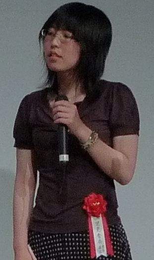 Professional shogi player 里見香奈 Kana Satomi in 2009.